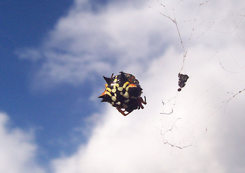 Australian Jewel Spider Austracantha minax